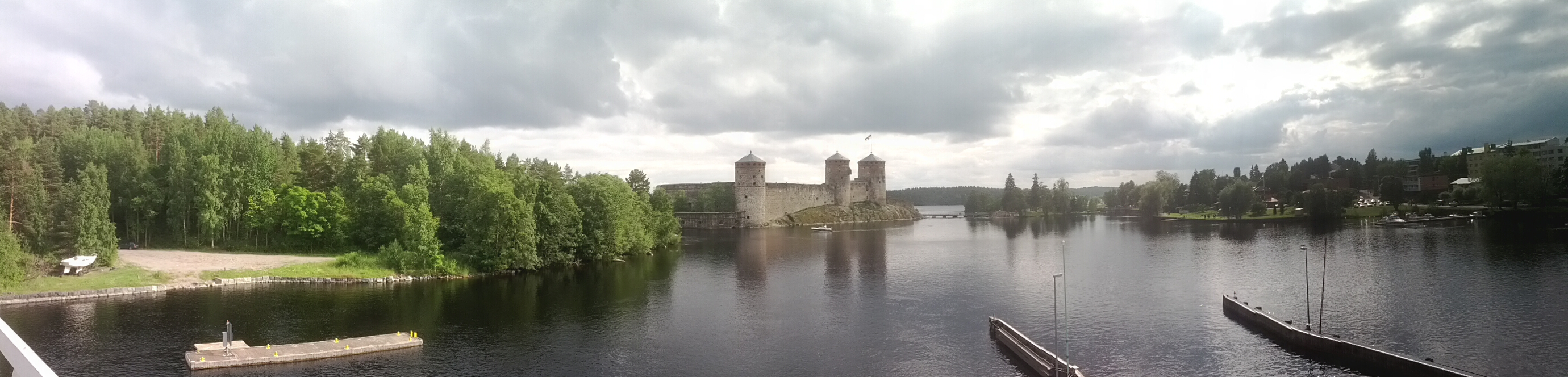 Savonlinna castle seen from the railway bridge.